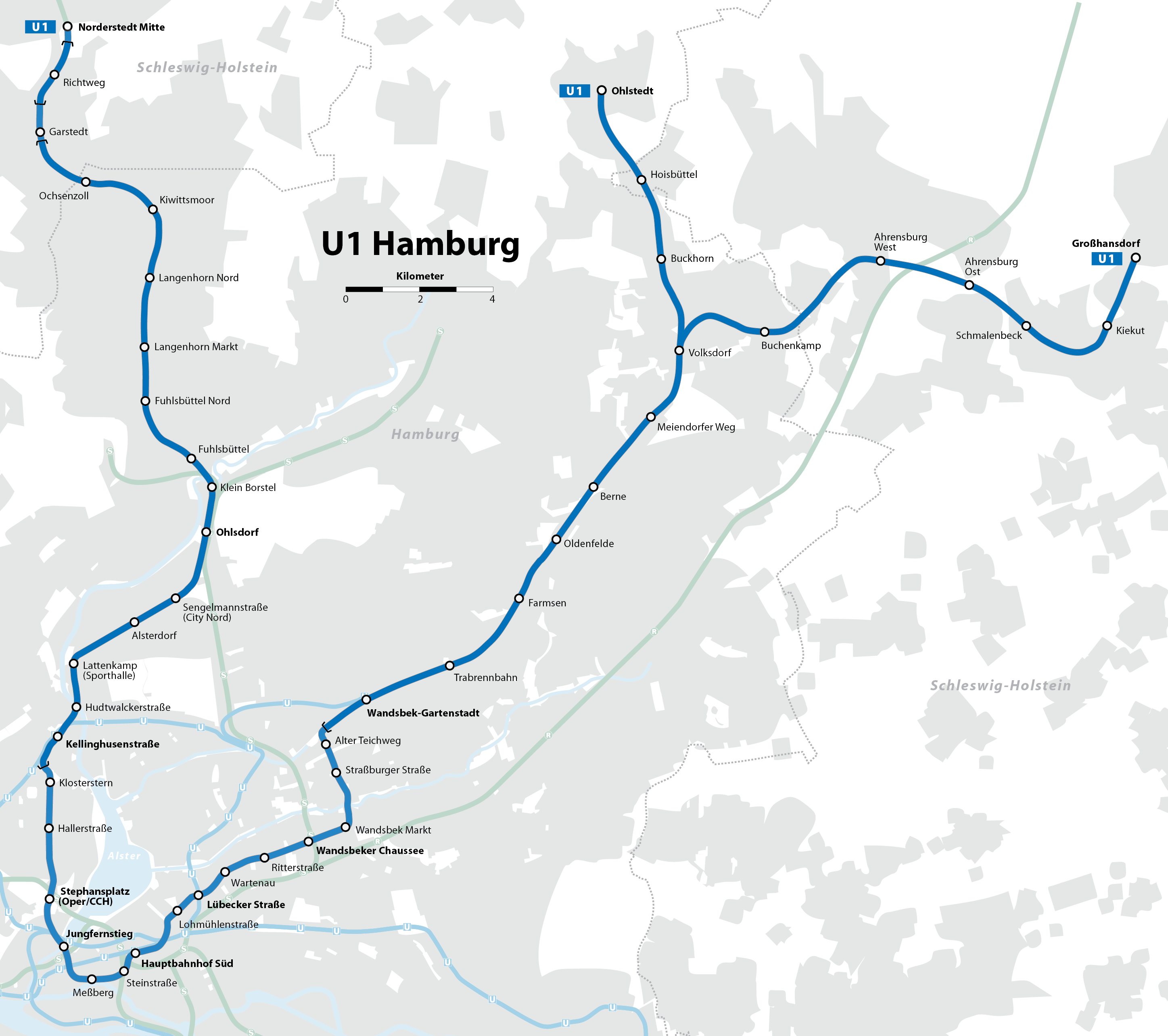 Map of Hochbahn Hamburg route U1